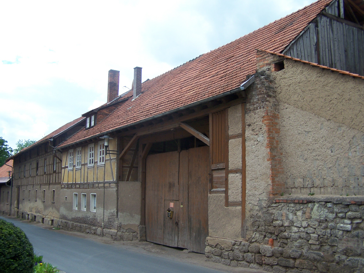 Neuenhof, Am Gutshof